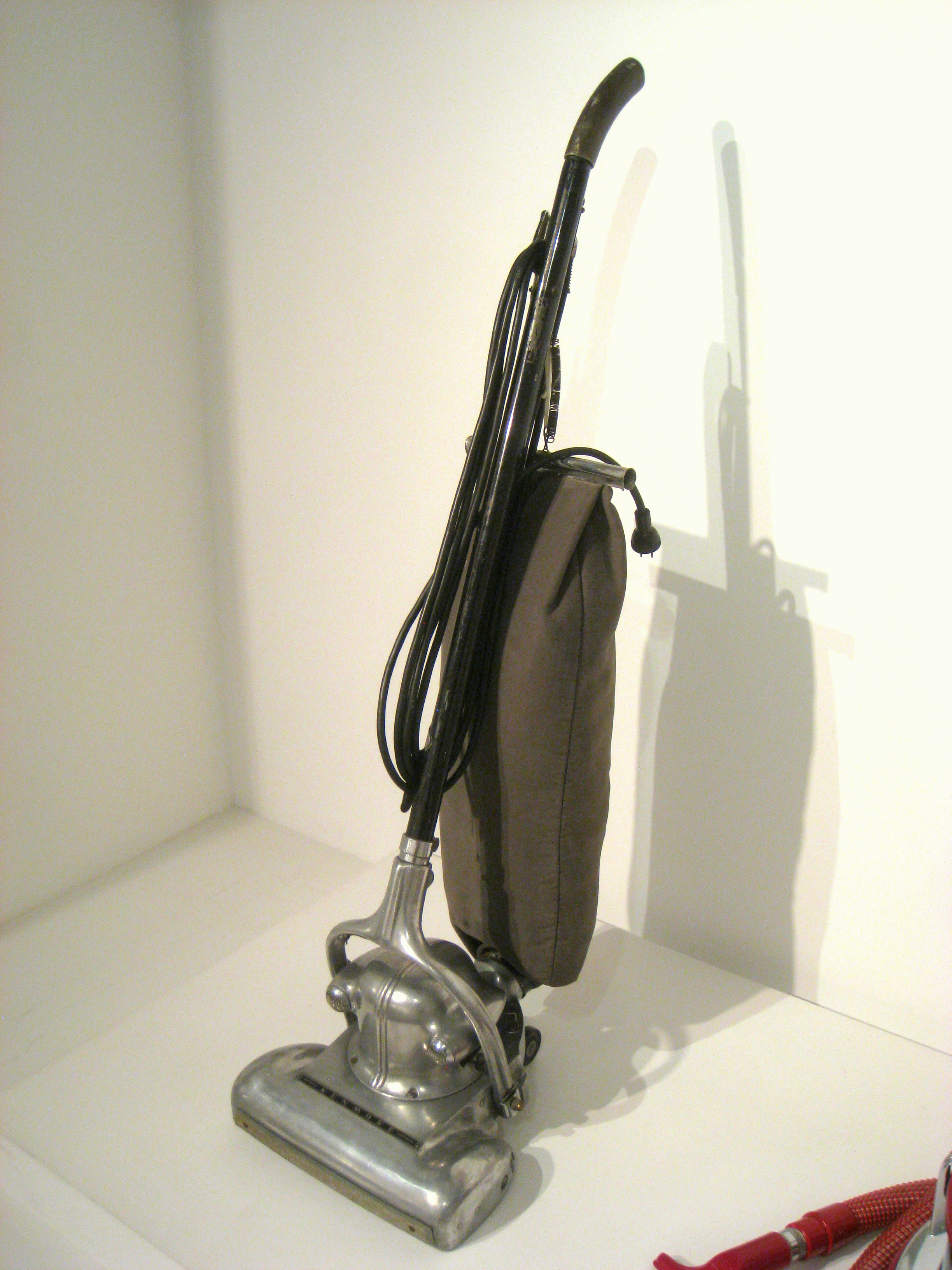 Imperial Kenmore vacuum cleaner (model 9802), 1941, manufactured by Sears, Roebuck, and Company, Chicago, Illinois, USA. Exhibit in the Wolfsonian-Florida International University Museum, 1001 Washington Avenue, Miami Beach, Florida, USA. Photography was permitted in this area of the museum without restrictions.